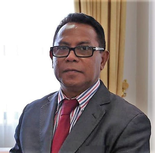 Antonito de Araújo, ambassador of Timor-Leste.